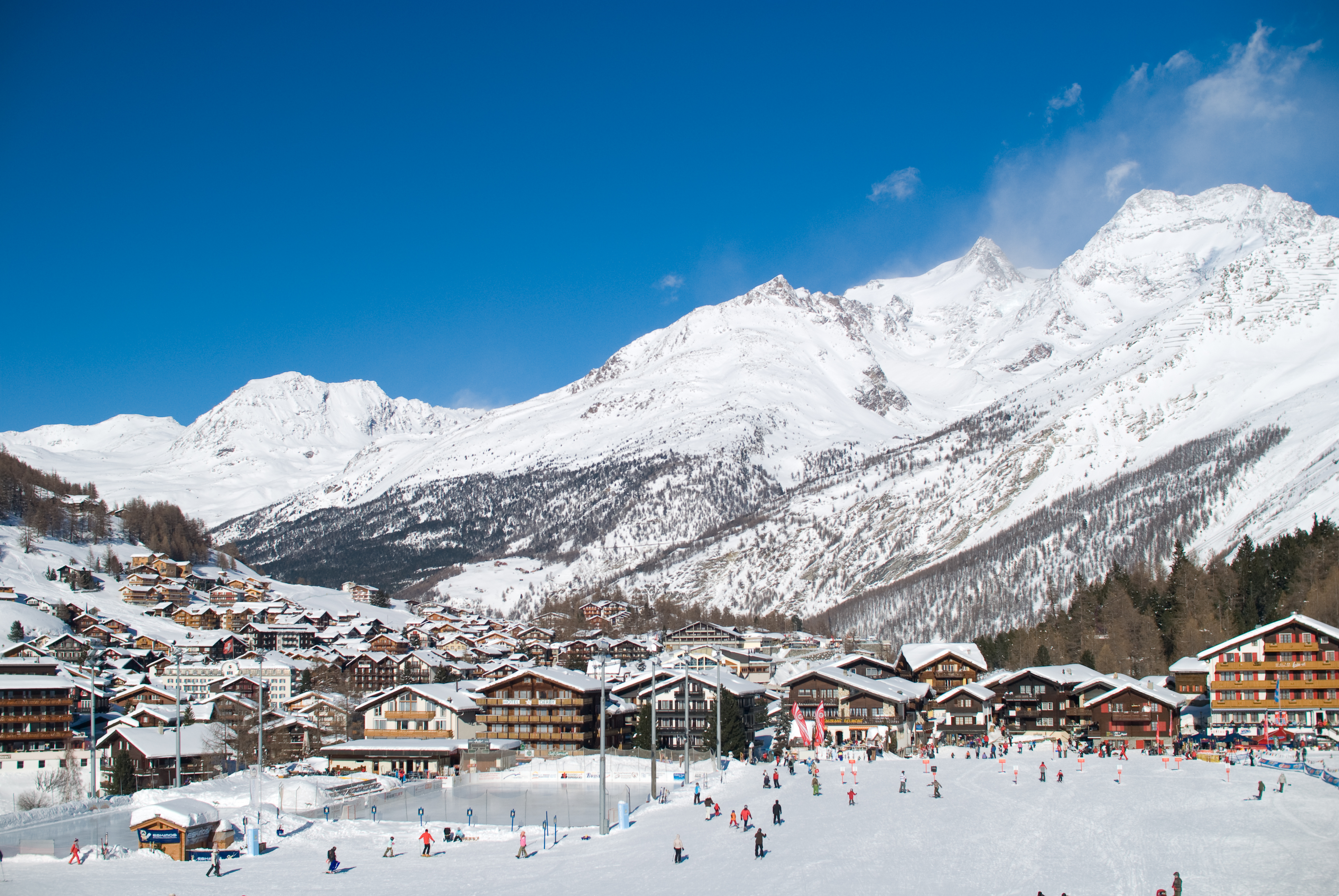 This image shows most of saas-fee village and the surrounding mountains.